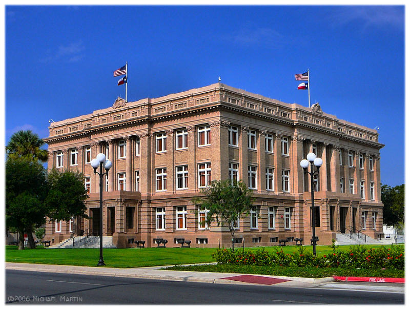 Oscar C. Dancy Building